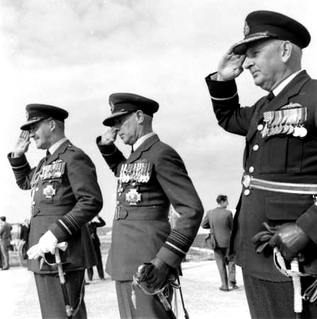 Distinguished spectators at the farewell parade for 78 Fighter Wing RAAF, held at RAF Station Ta Kali, Malta. Identified left to right: Former Chief of Air Staff RAAF, Air Marshal Sir Donald Hardman KCB, OBE, DFC; Commander in Chief Middle East Air Forces Sir Claude Pelly KCB, CBE, MC; and Officer Commanding Overseas Headquarters, Air Commodore A M Charlesworth CBE, AFC. The Wing has spent two years in Malta on garrison duty and is now returning to Australia.